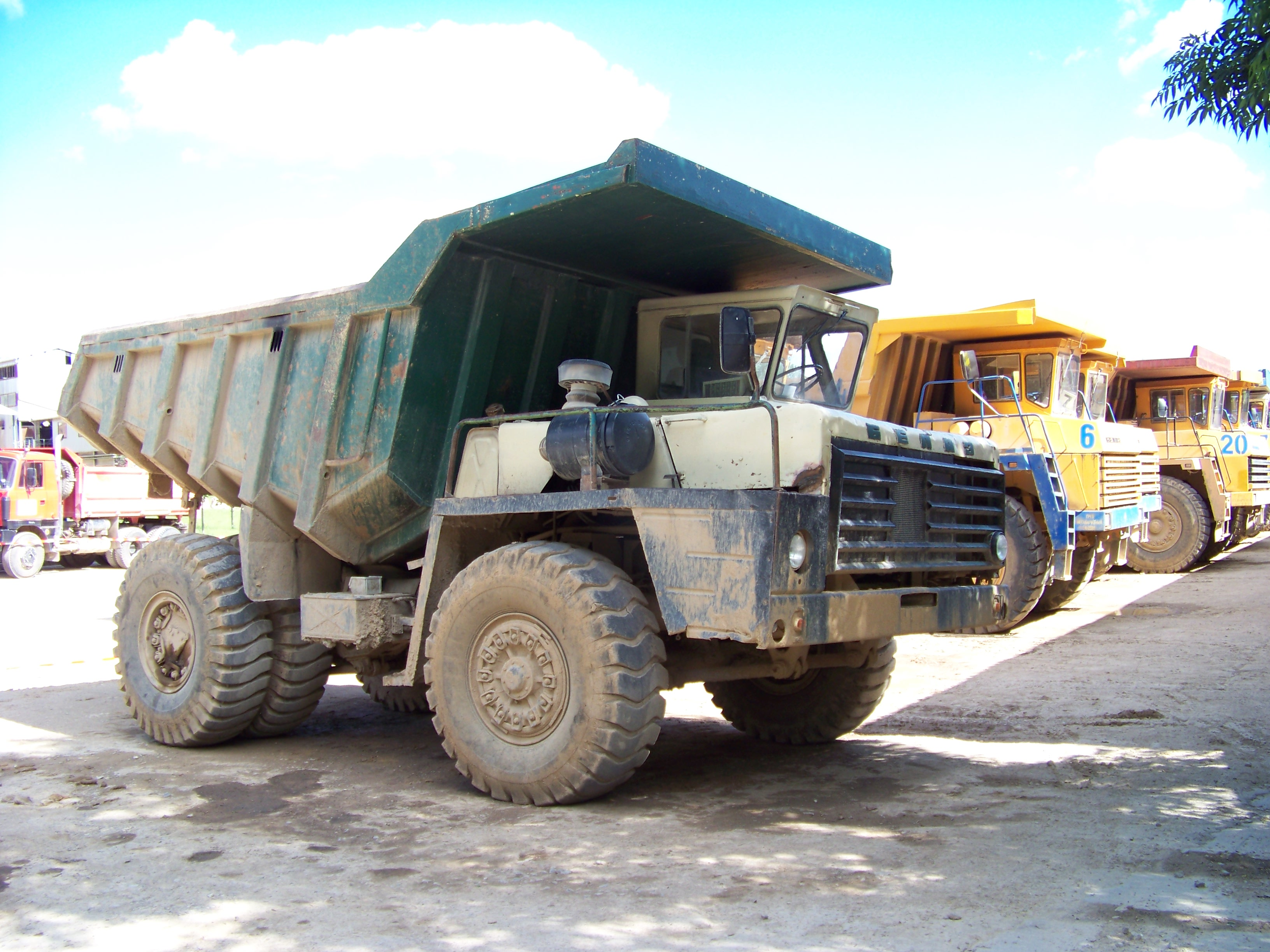 Mořina, Beroun District, Central Bohemian Region, the Czech Republic. BelAZ Trucks in the quarry area.